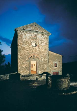 Commenda of Sant'Eufrosino, 15th century based on the architectural conceptions of Michelozzo Michelozzi, a student of Donatello.